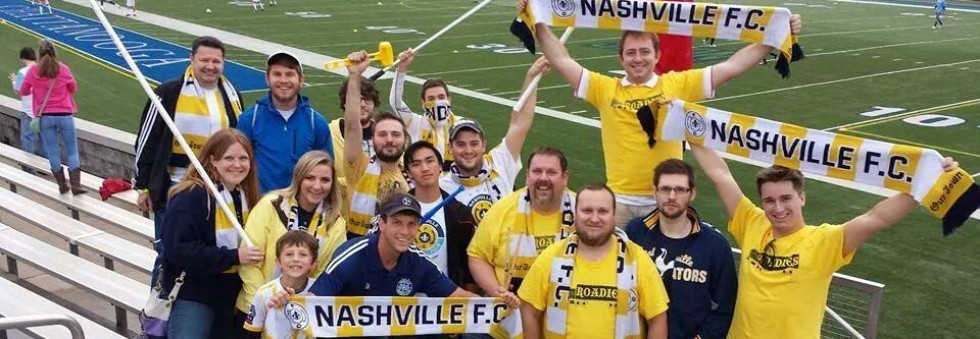 A group of NFC Roadies members at a soccer game